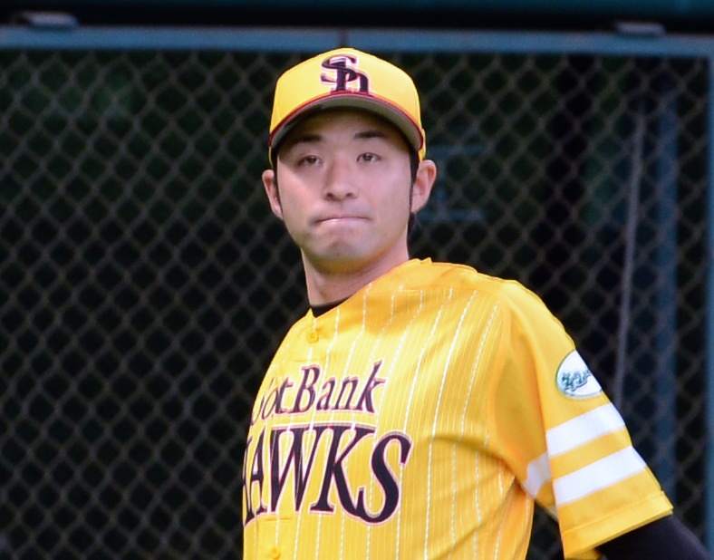 Takeshi Hosoyamada, catcher of the Fukuoka SoftBank Hawks, at Fukuoka Dome.